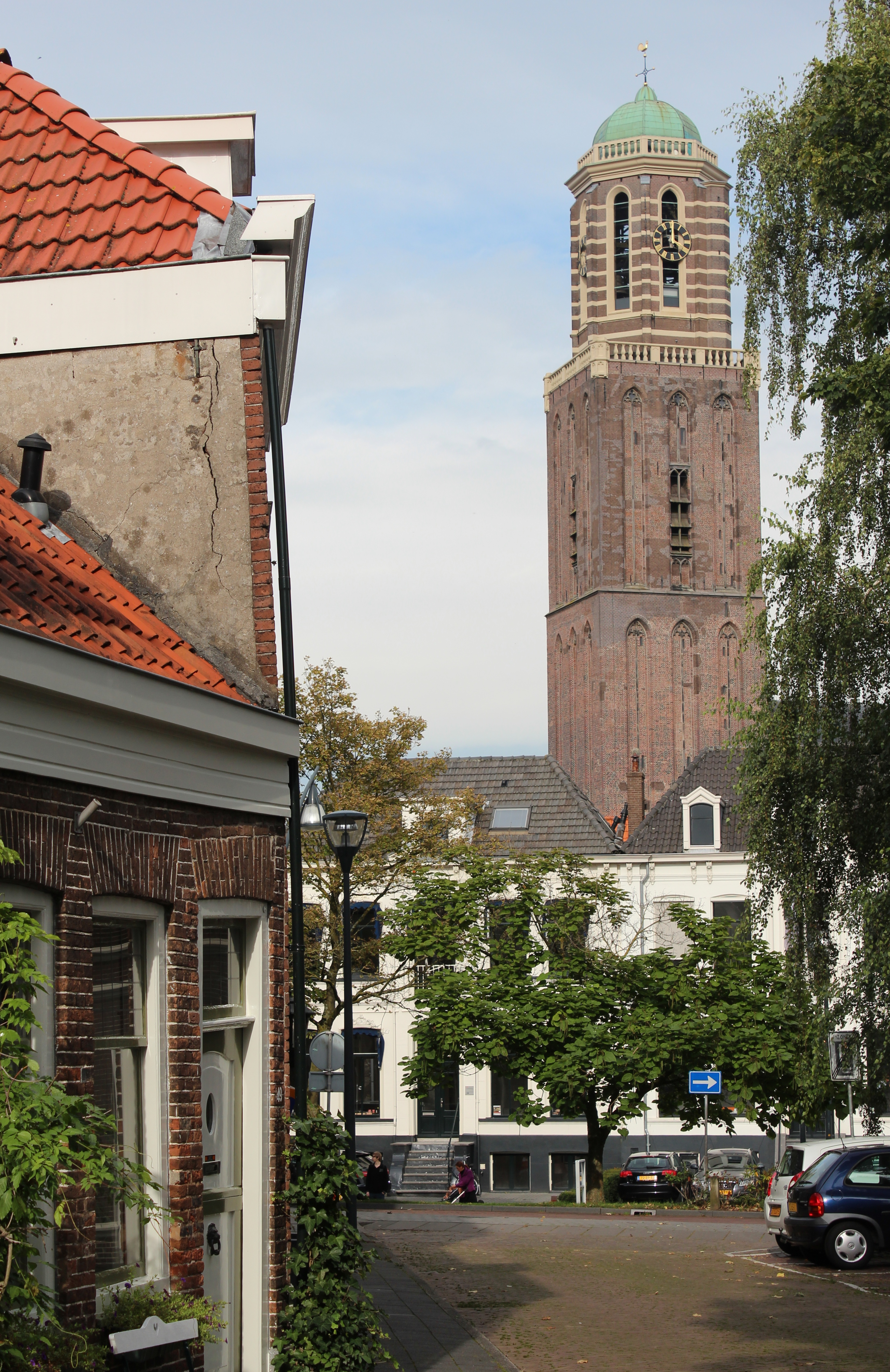 Peperbus in Zwolle, seen from the Eekwal. The house on the left is crooked.